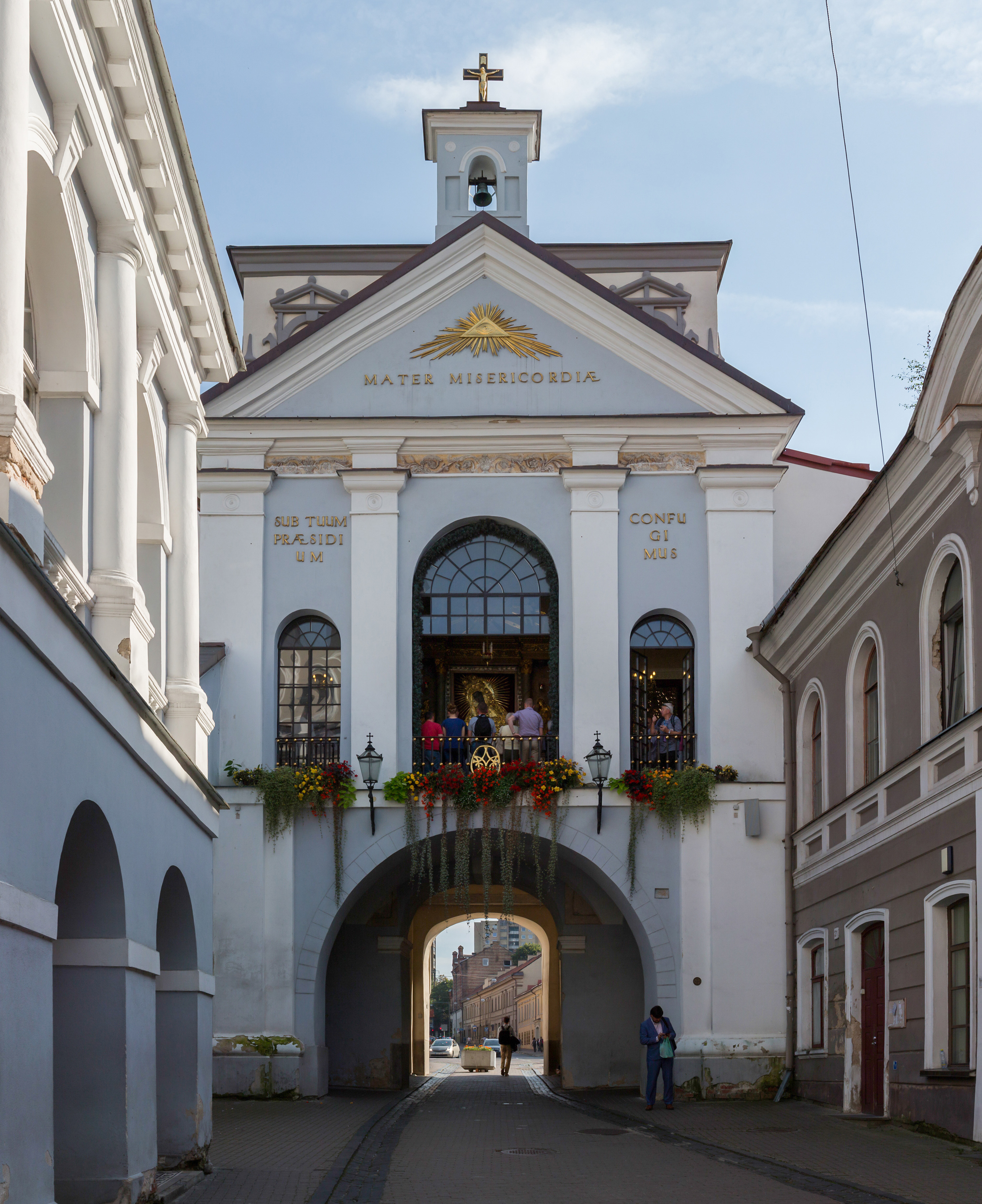 The exterior view of the Gate of Dawn as viewed from within the old town in Vilnius, Lithuania.